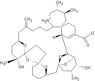 2D structure